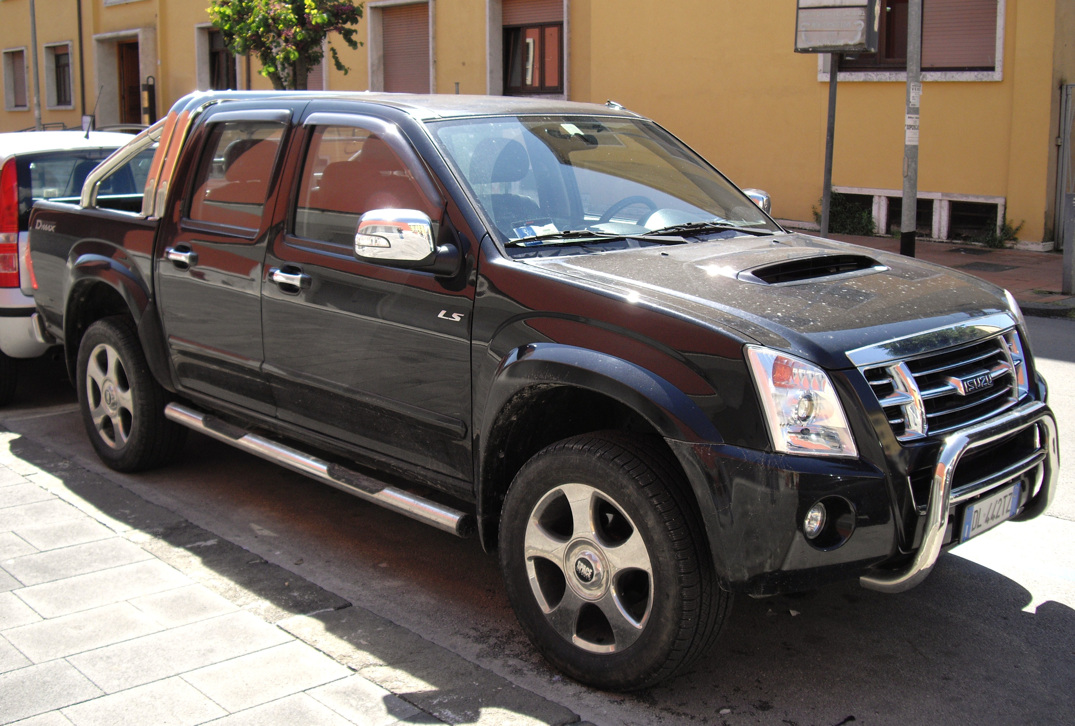 Isuzu D-Max